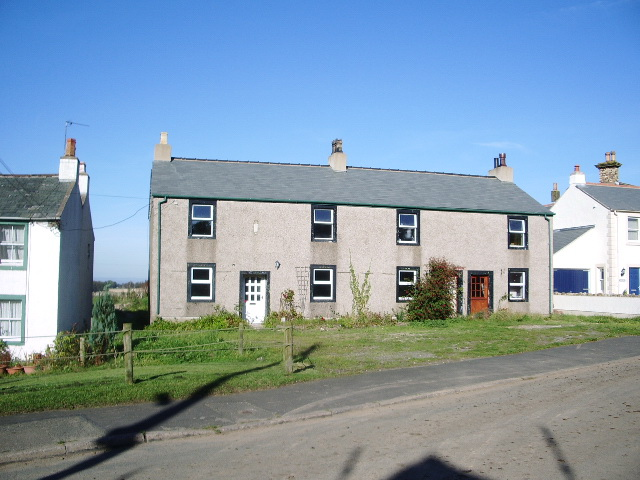 What was the Sun Inn, Torpenhow, near to Torpenhow, Cumbria, Great Britain. Has been in the process of being converted into three houses for at least 5yrs. and they are still not finished